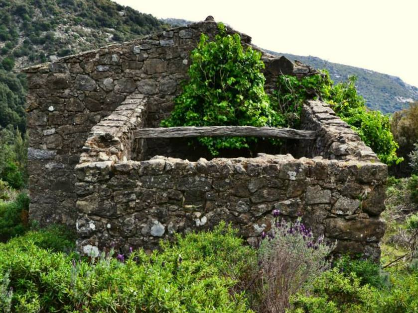 elba island